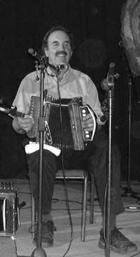 Cajun accordion maker Marc Savoy